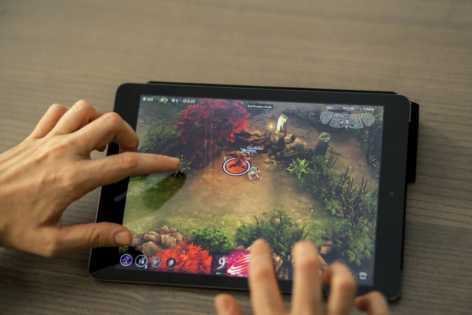 Vainglory screenshot